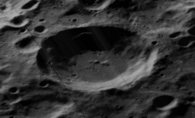 Oblique view of Timiryazev, on the far side of the moon, facing west. Dark diagonal lines are artifacts of reprocessing.